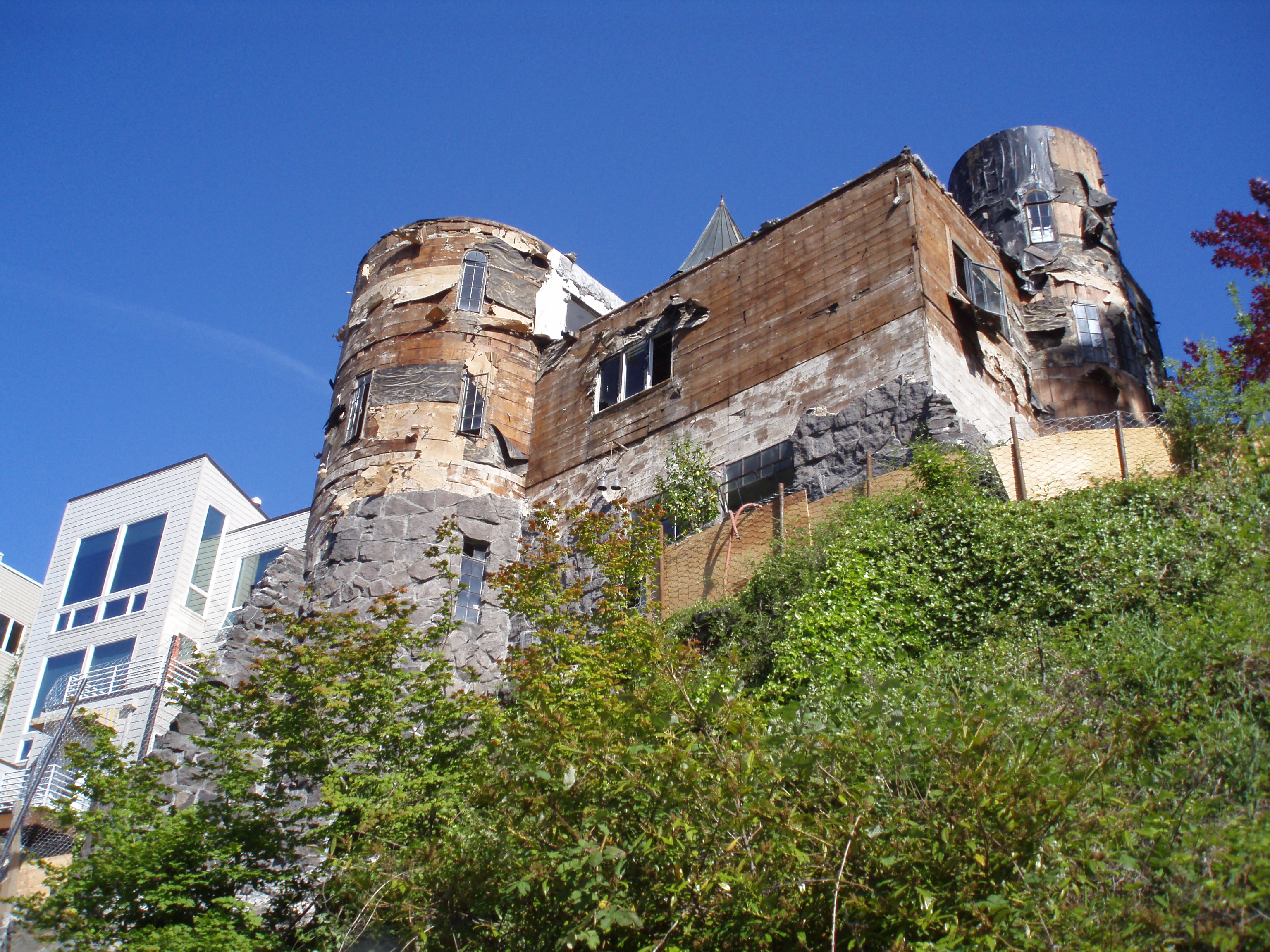 Canterbury Castle in Portland, Oregon, as it is demolished